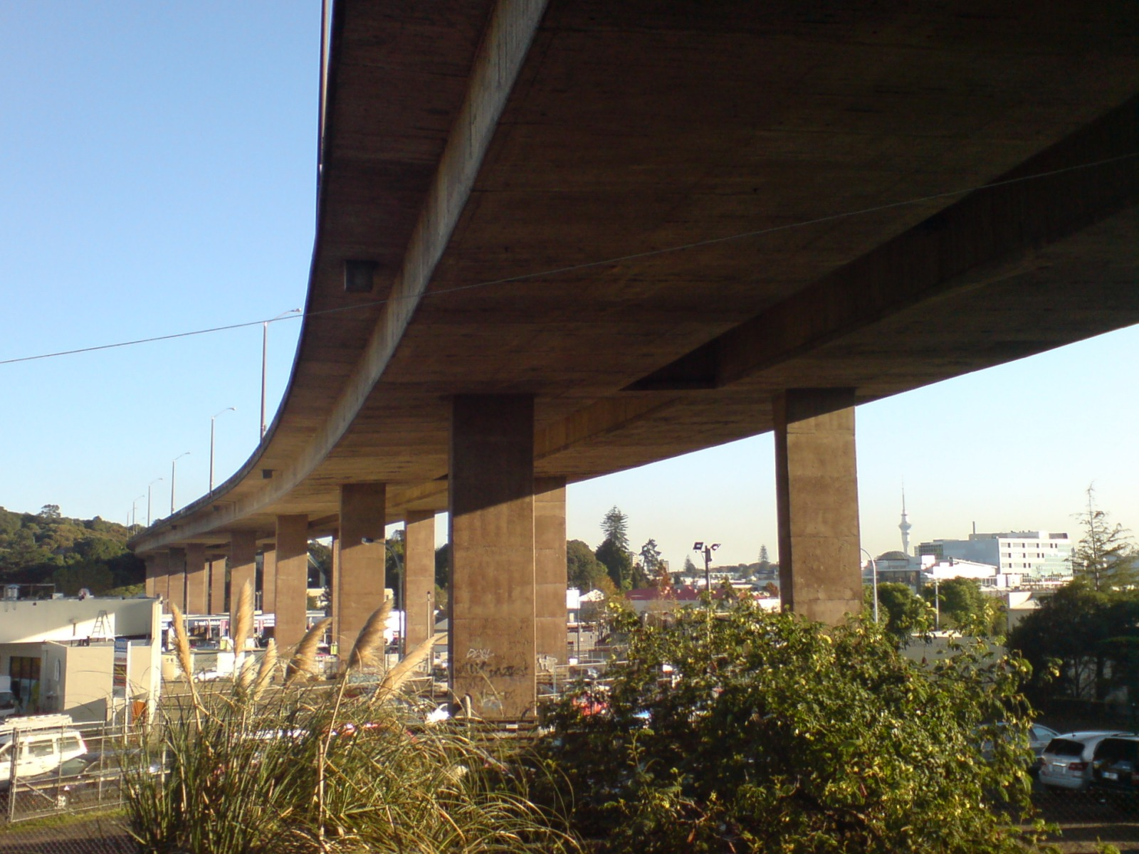 The Newmarket Viaduct in Newmarket, Auckland City, New Zealand. Seen from below, looking west.